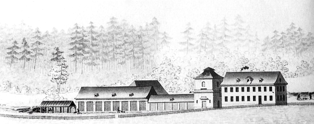 Southern view on the manufactory Luisenruh of G. Haevel 1813